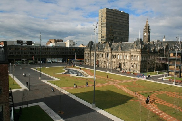 Middlesbrough Town Hall Viewed from the terrace of the MIMA Art Gallery Middlesbrough Town Hall was built in the 1880s.